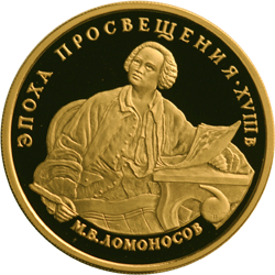 Commemorative coin - Mikhail Vasilyevich Lomonosov